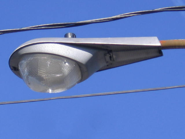 History of street lighting